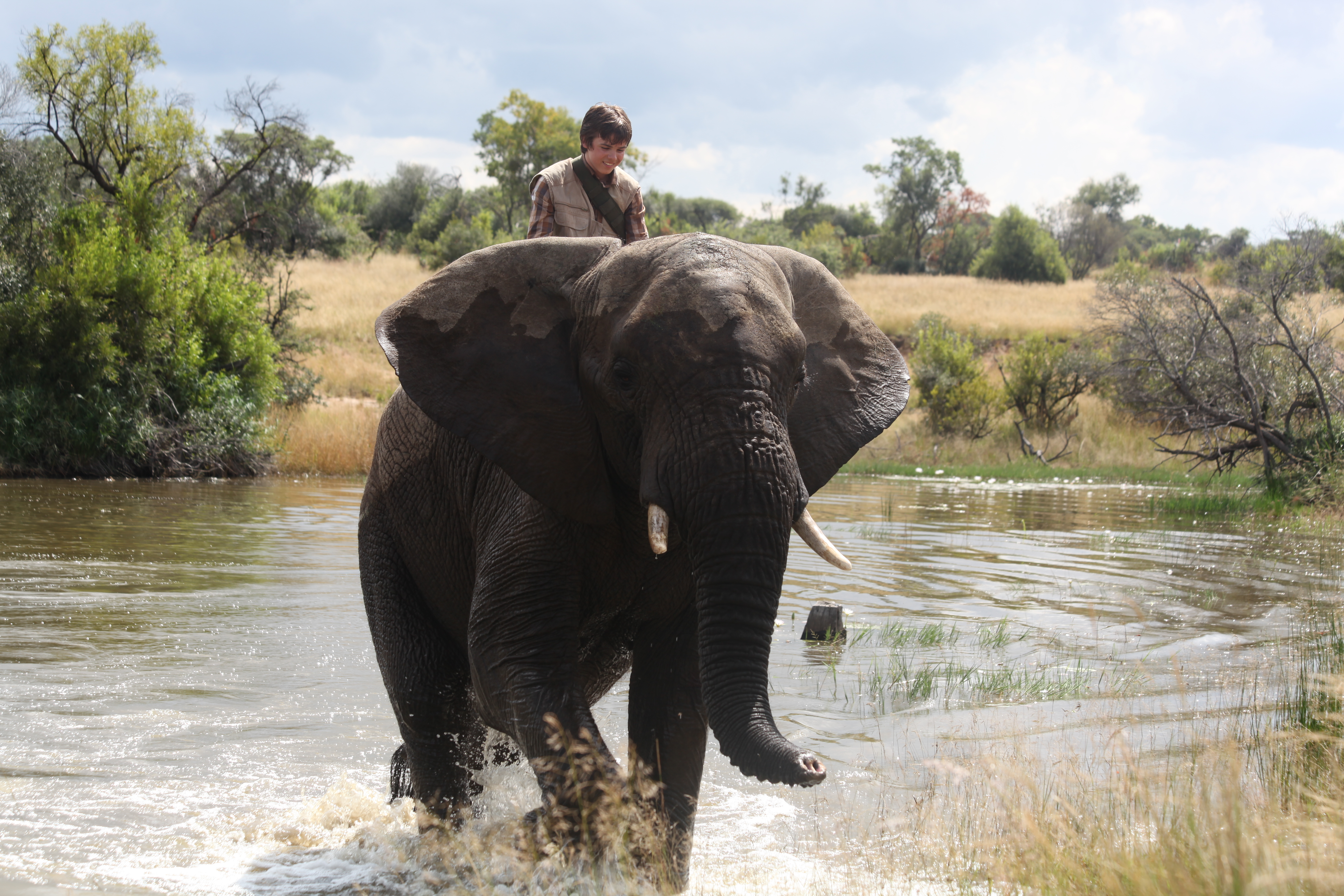 Sam Ashe Arnold rides Chova during production of, An Elephant's Journey, in Bela Bela, South Africa, April 12, 2017.